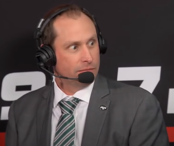 In 2019